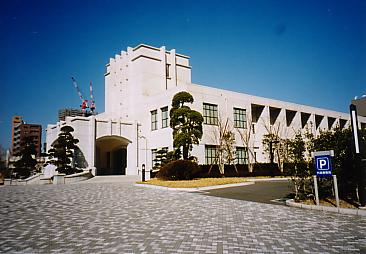 Ichigaya Memorial Hall